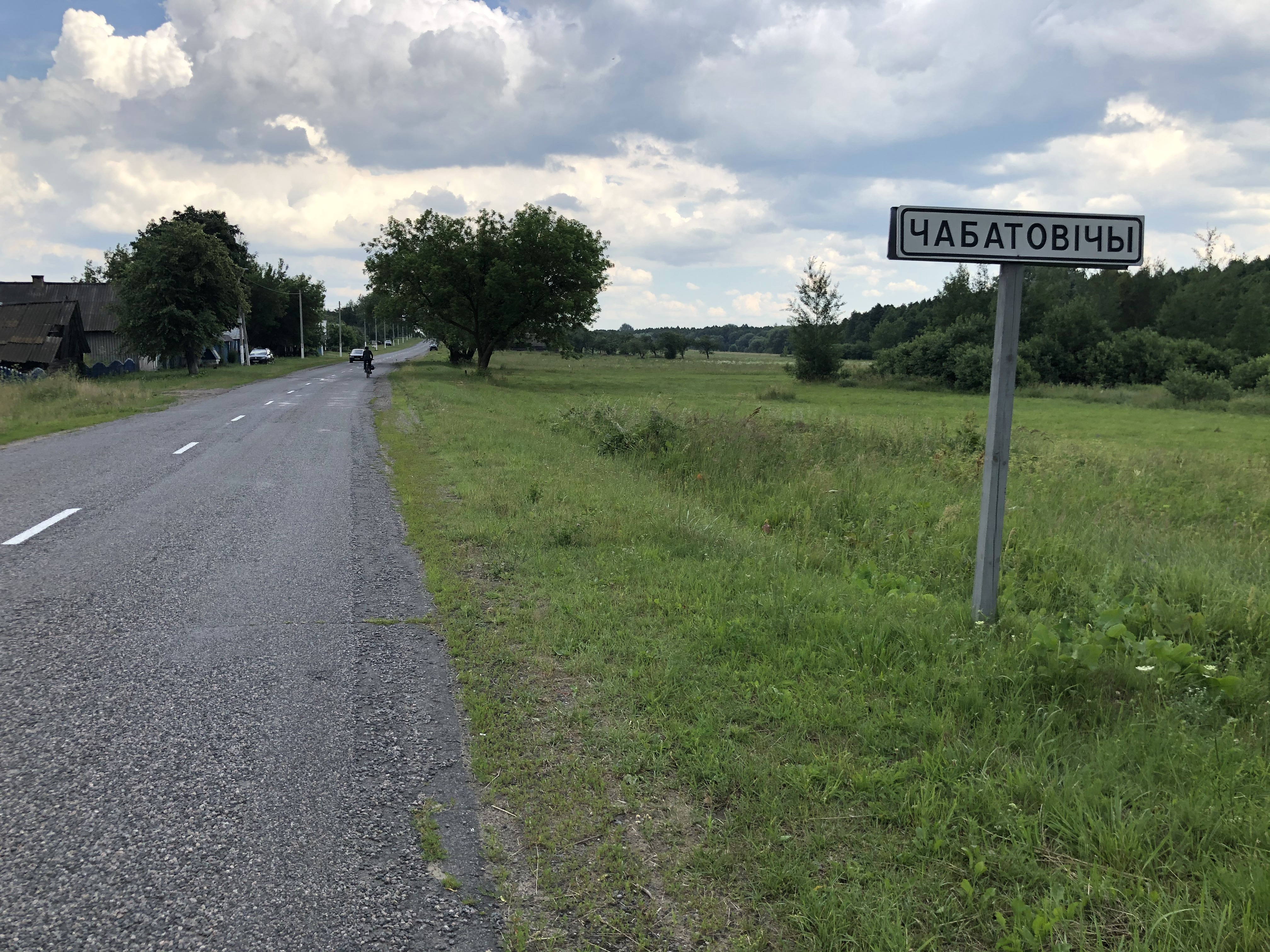 Chebatovichi, Buda-Kashelevskiy Region 2020 july